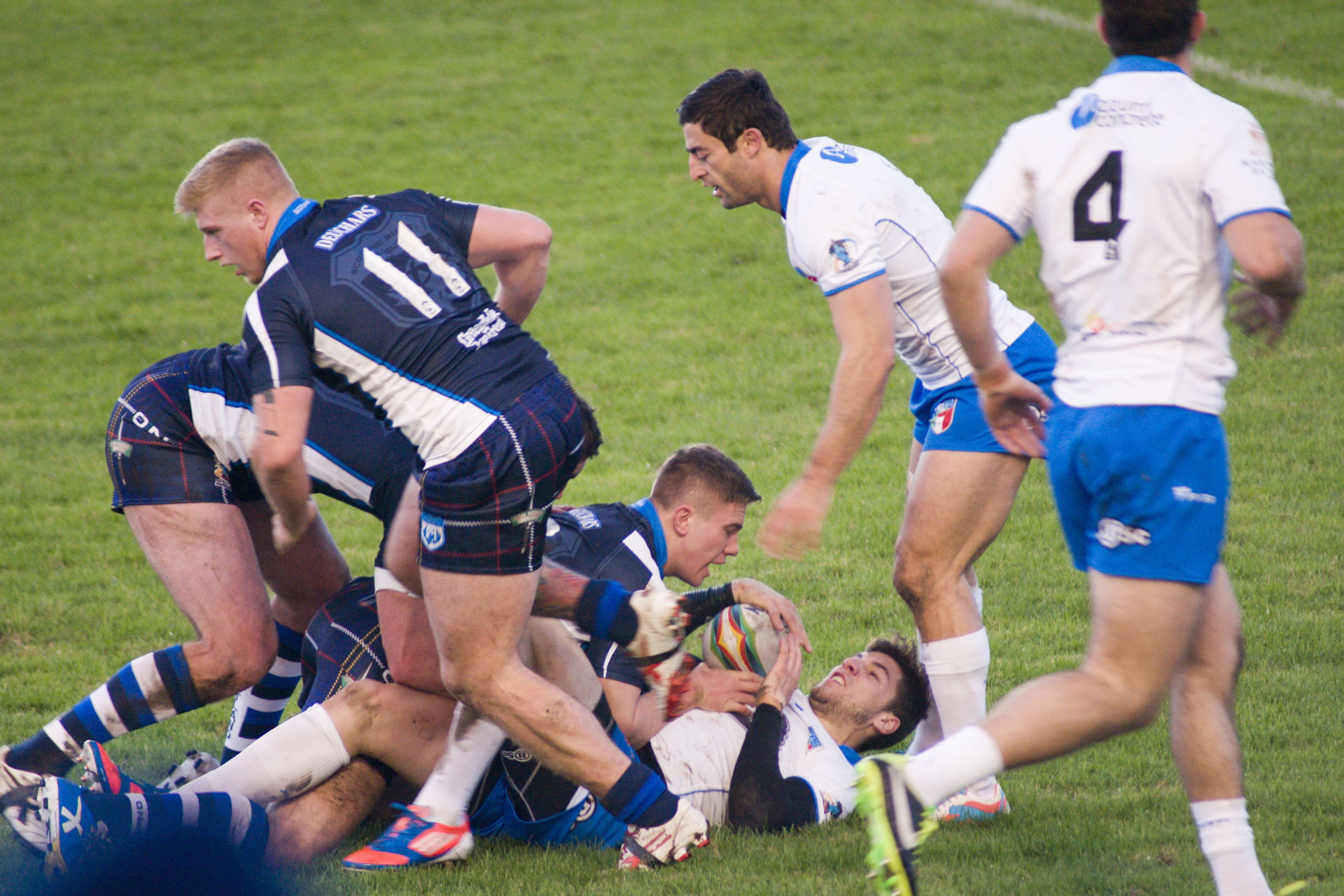 2013 Rugby League World Cup match between Scotland and Italy at Derwent Park in Workington.